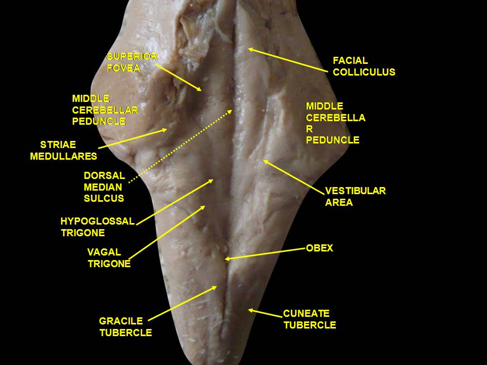 Anatomical dissections